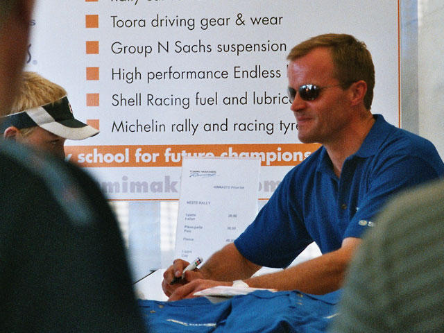 Tommi Mäkinen writing autographs on the thursday before Rally Finland 2004. Picture taken by me, licensed under Creative Commons Attribution 2.5 License.